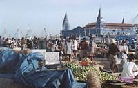 Fish market, Belém, Pará, Brazil.